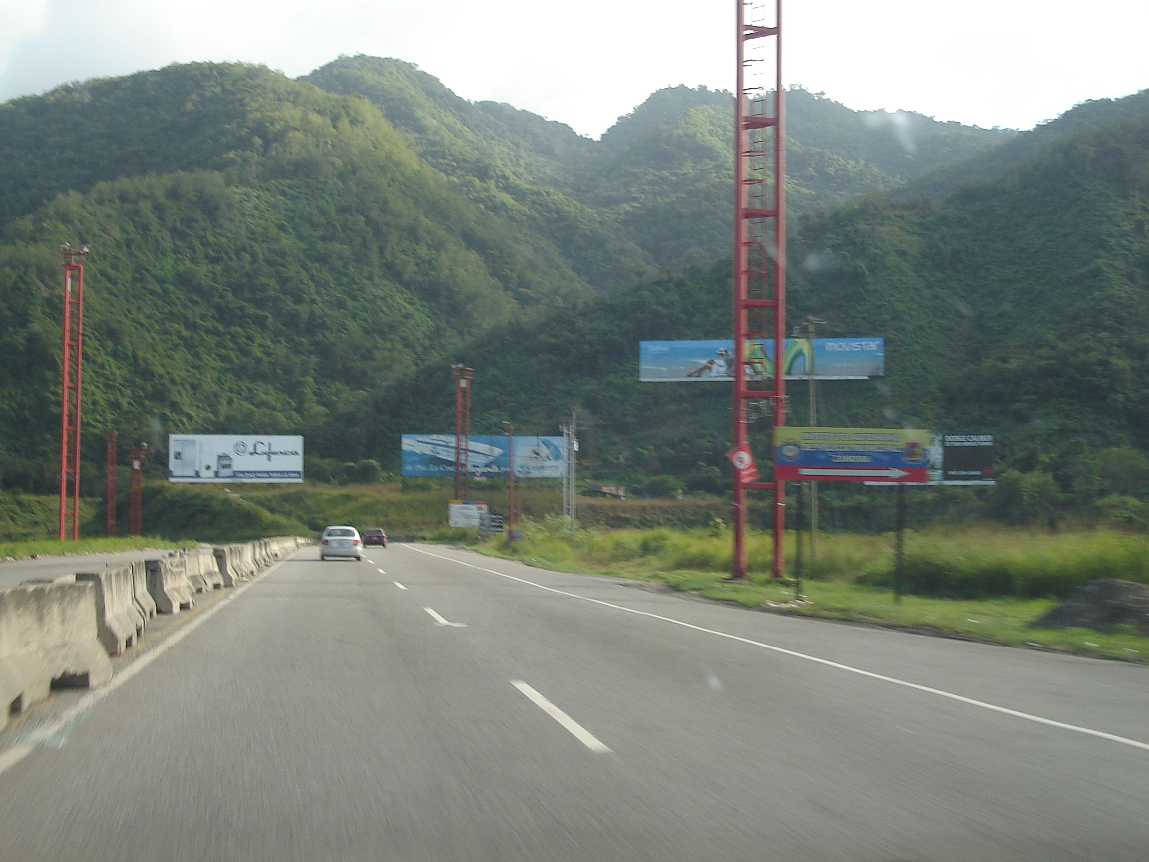 Section of the Gran Mariscal de Ayacucho highway, exiting of the Guatire city, route to the Orient.